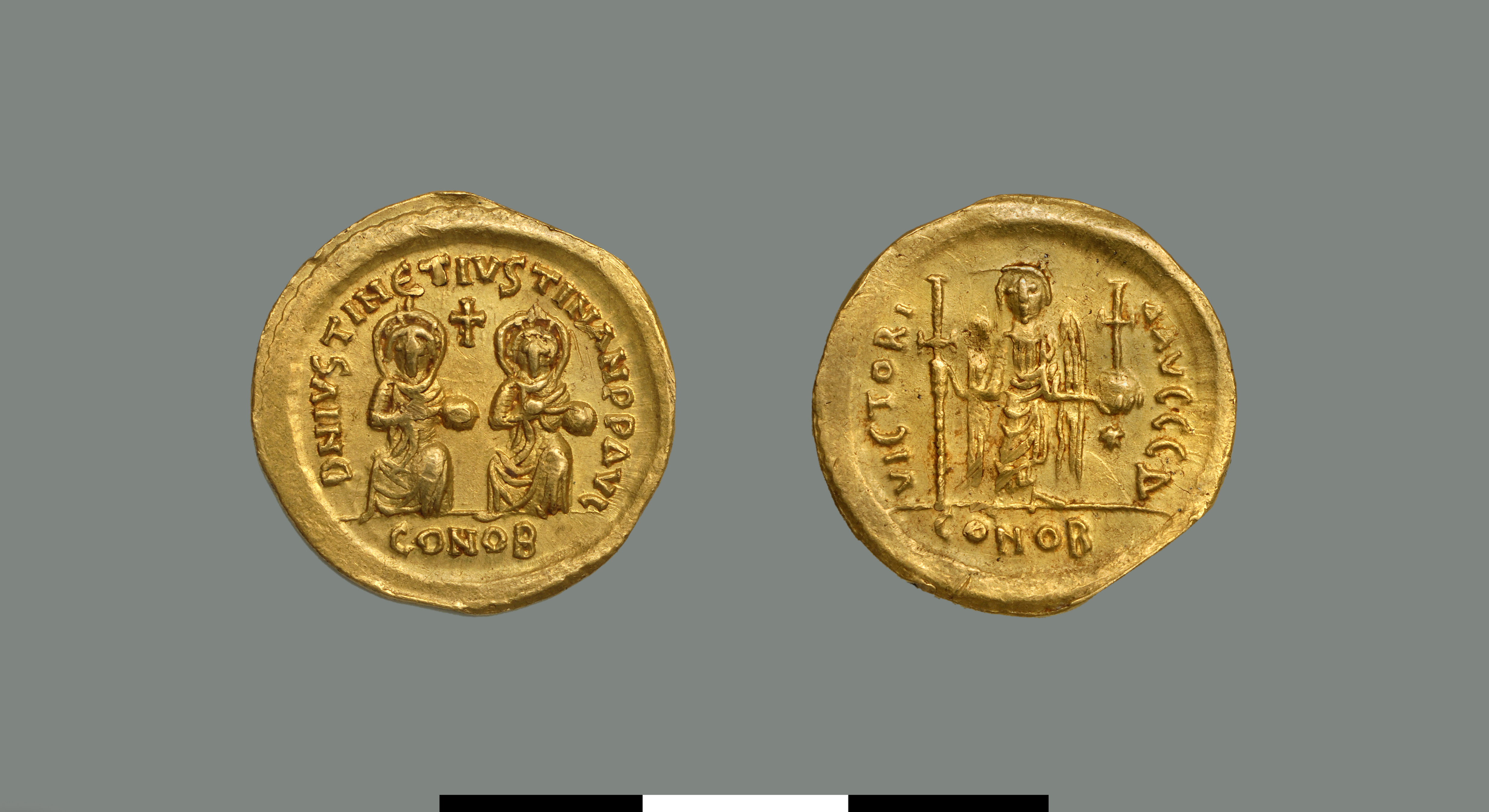 Solidus, Constantinople, 4 April - 4 August 527